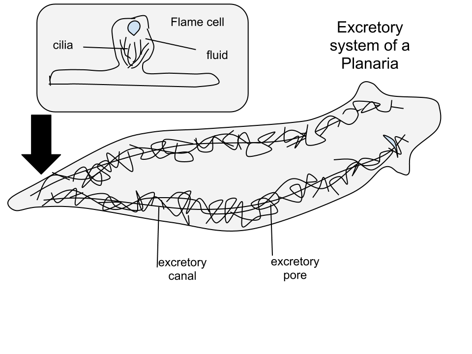 Excretory system of a Planaria.